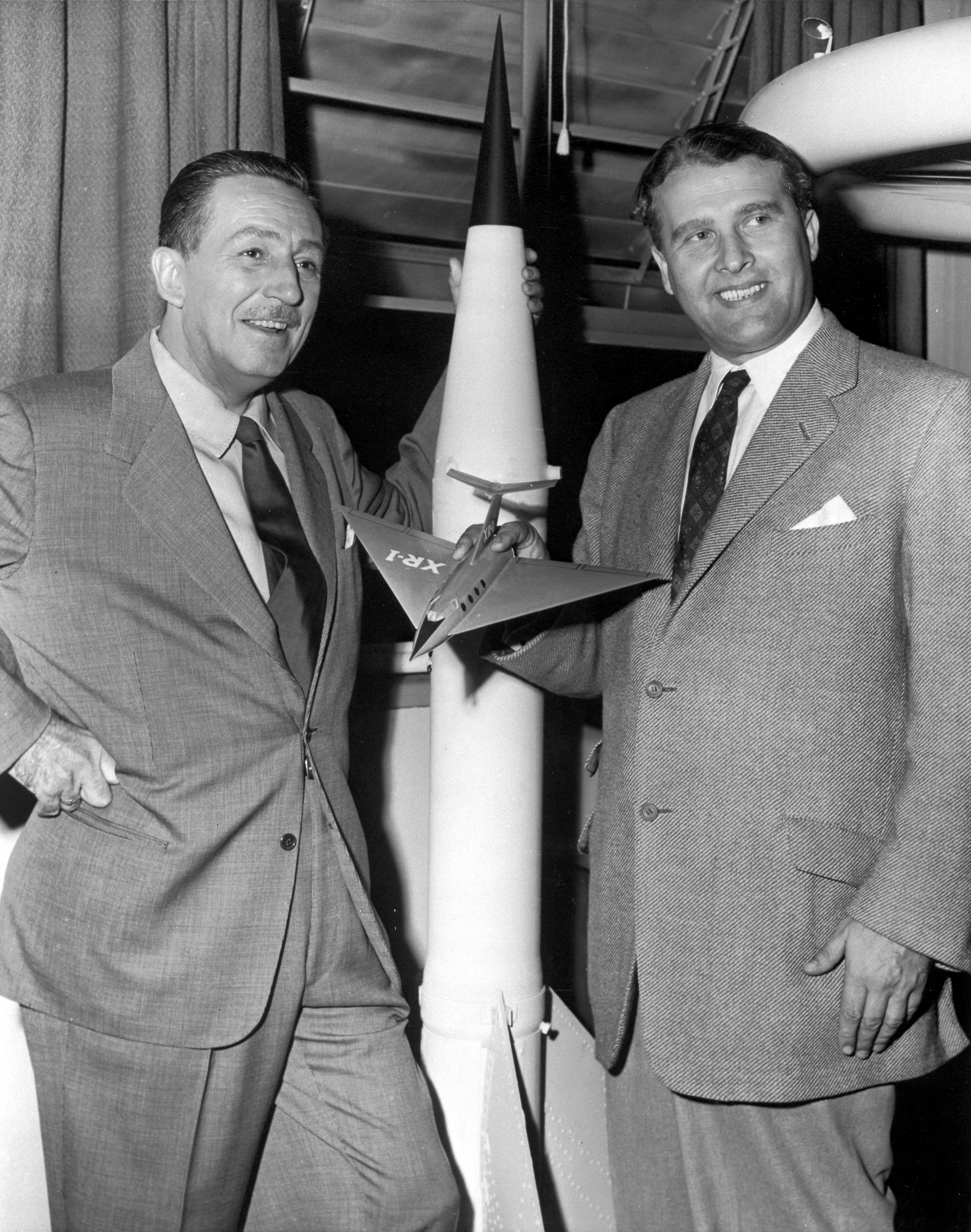 Walt Disney, left, and Wernher von Braun, right. Dr. Werhner von Braun, then Chief, Guided Missile Development Operation Division at Army Ballistic Missile Agency (ABMA) in Redstone Arsenal, Alabama, was visited by Walt Disney in 1954. In the 1950's, von Braun worked with Disney Studio as a technical director, making three films about space exploration for television. A model of the V-2 rocket is in background.